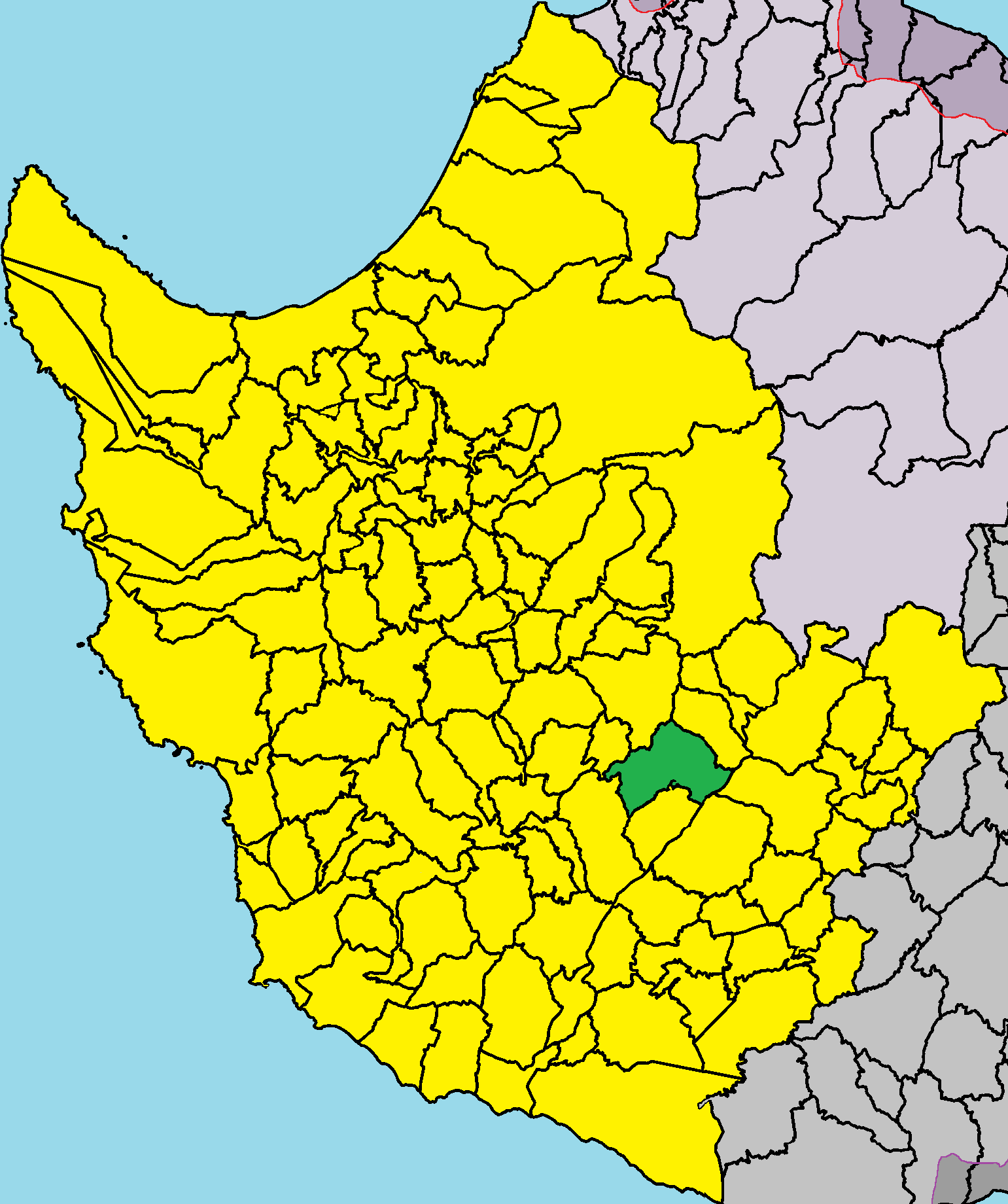 Pentalia in Paphos District.